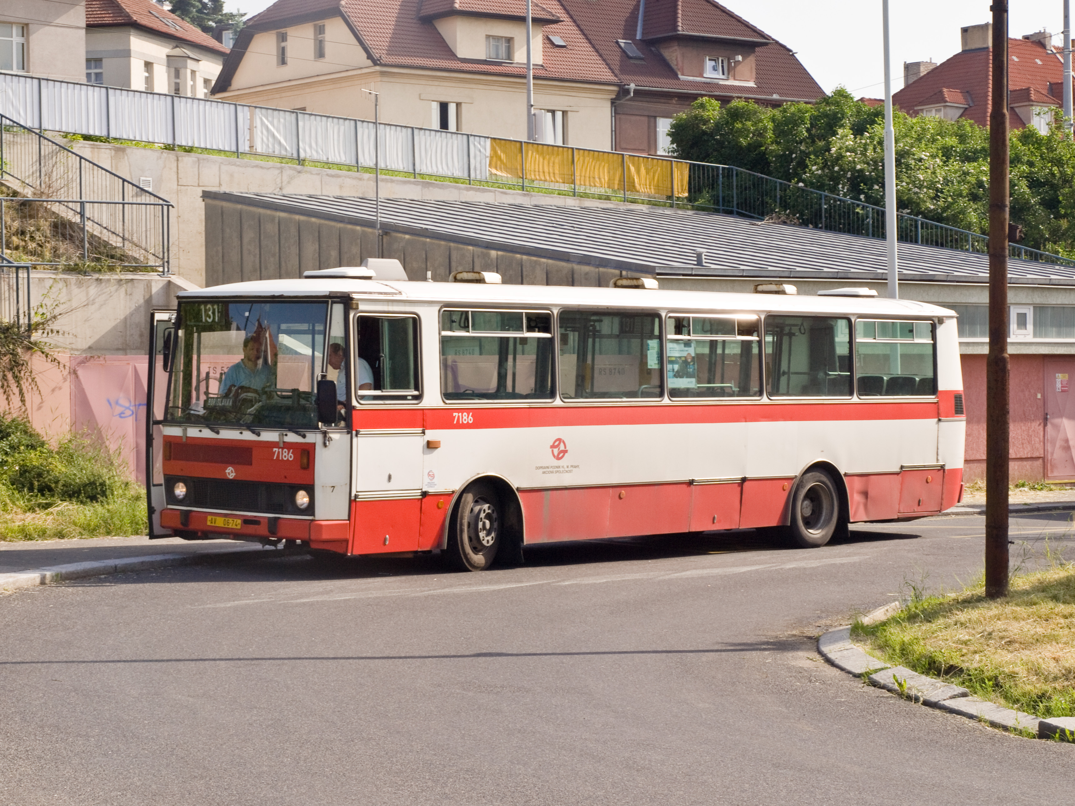 Bus registration number 7186, Bořislavka, Prague